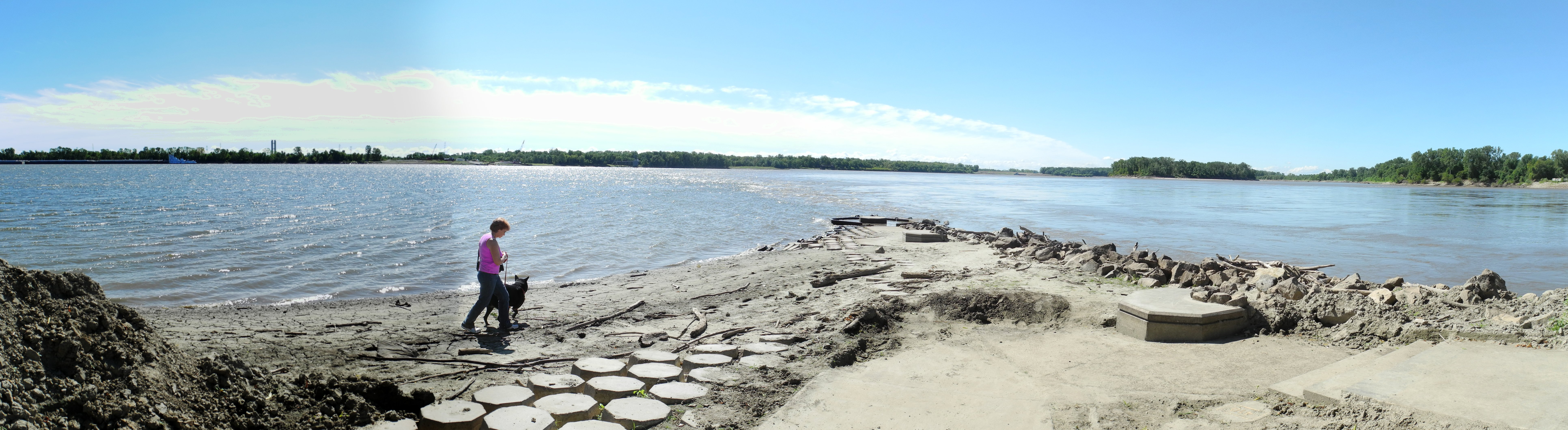 Looking south at the confluence of the Mississippi River (left) and the Missouri River (right) at Jones-Confluence Point State Park in the state of Missouri. The debris and disturbed aspect of the facility are due to the floods that are prone to occur at this spot. Lewis and Clark wintered on the far (east) bank of the Mississippi near the center of this image at Camp Dubois in 1803-1804 prior to their expedition up the Missouri River. This image was created with Hugin